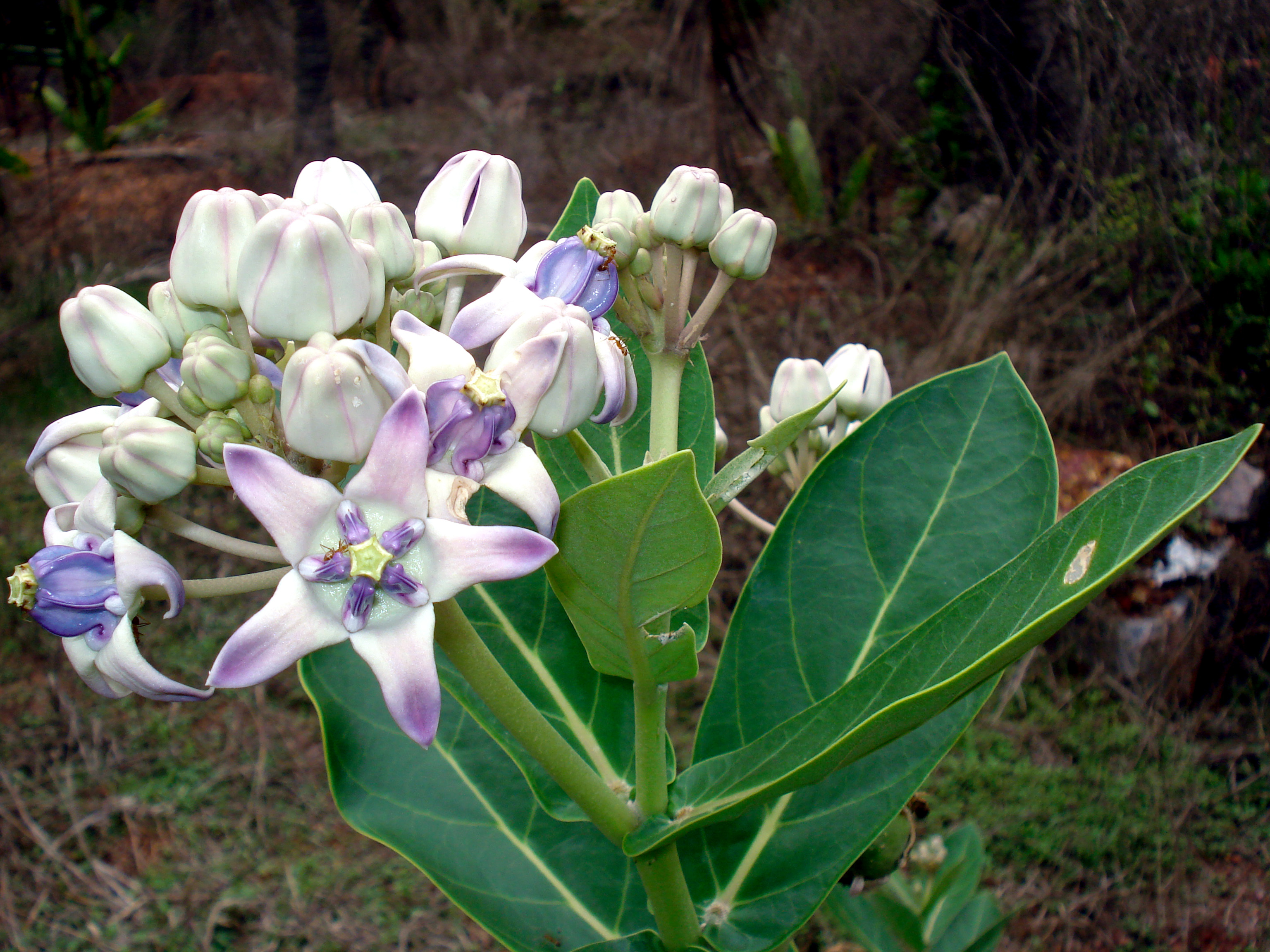 Calotropis gigantia is medicinal plant grown in wasteland.